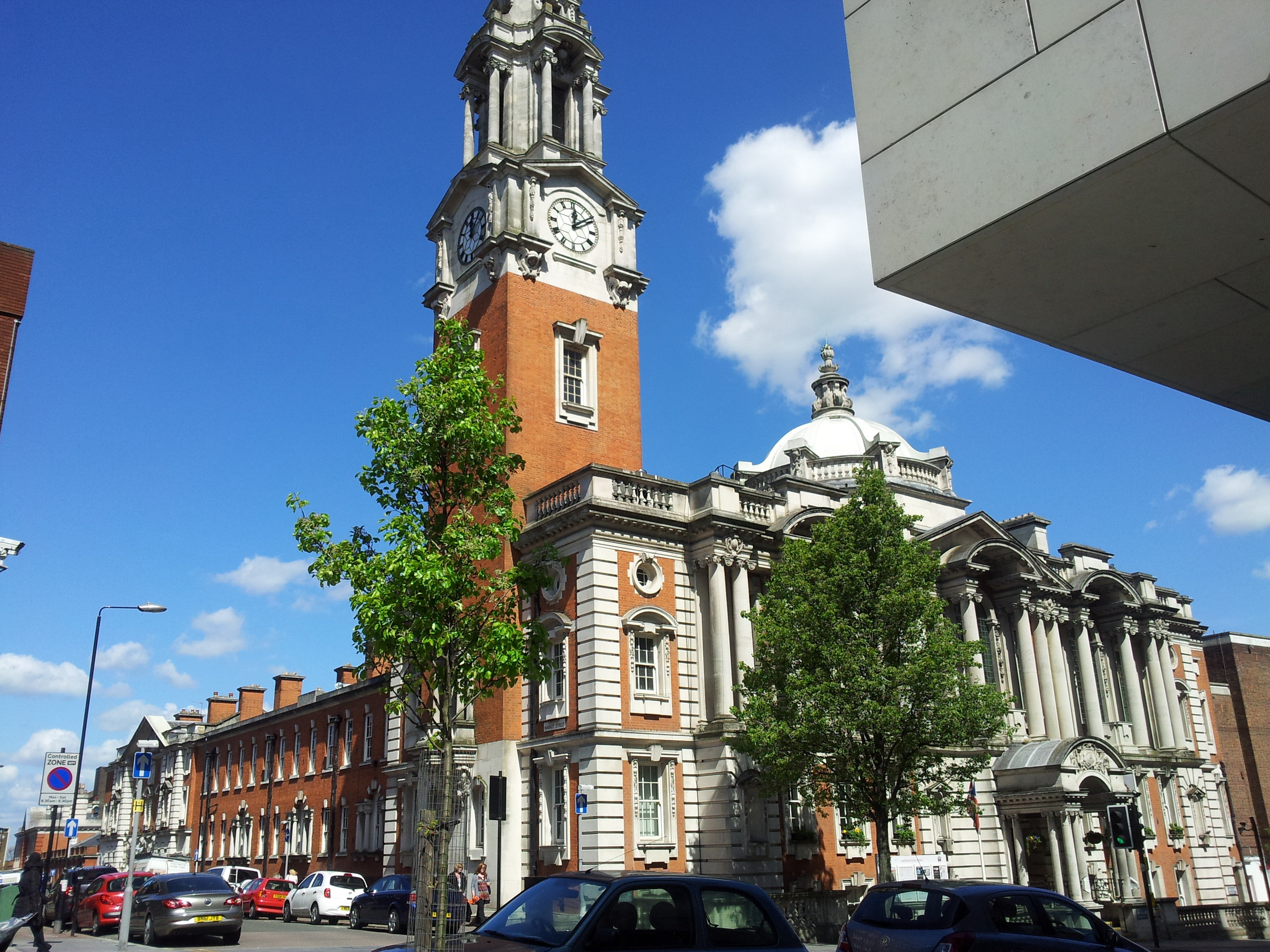 View of Woolwich Town Hall on the corner of Wellington Street and Market Street in the centre of Woolwich, South East London.